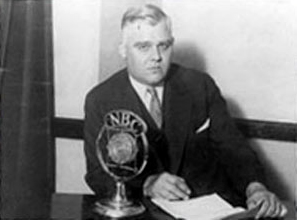 George Akerson, White House Press Secretary for Herbert Hoover (in office 1929–30).